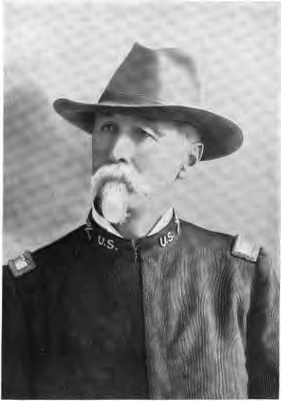 Hamilton Smith Hawkins From "War Time Snapshots" in Munsey's Magazine, Vol. XX No. 1 (October 1898), p. 4.